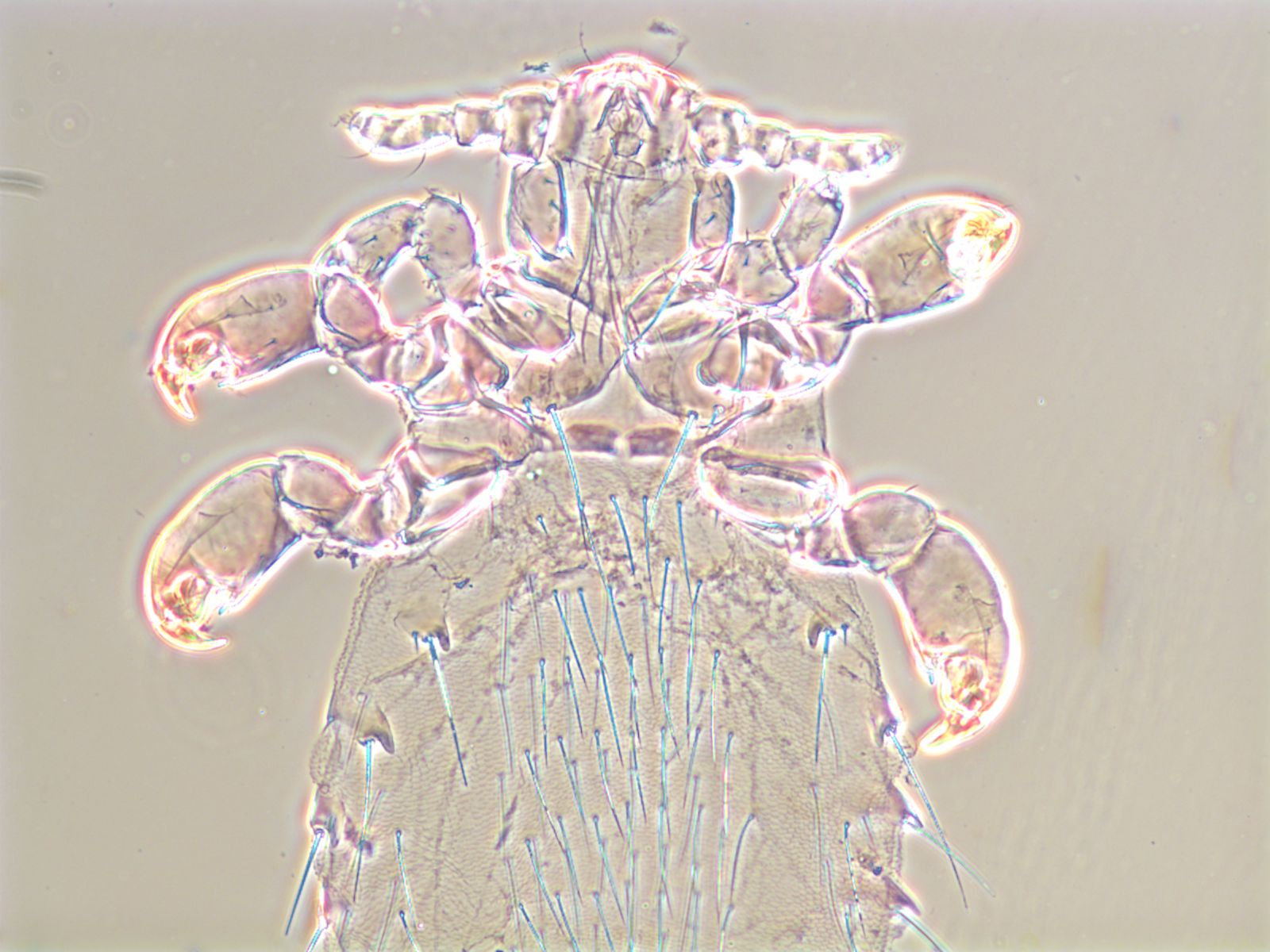 Neohaematopinus callosciuri, third stage nymph, head and thorax, ventral, scale 0.50 mm, phase contrast